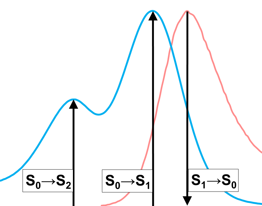 Absorbtion spectrum (blue), emission spectrum (red) and electron transitions of a hypothetical fluorochrome.